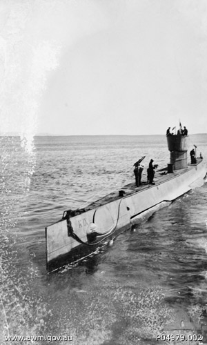 Port bow view of Australian submarine HMAS K9 at sea. Servicemen can be seen on deck and in the conning tower. This patrol submarine was one of three 'K' Class (Koloniën) submarines built at the yard of K M de Shelde of Flushing, Holland, and was commissioned into the Royal Netherlands Navy (RNN) on 21 June 1923 as K-IX. RNN K-IX was stationed at the Surabaya Submarine Base in 1942 and with the imminent capture of the base by the Japanese, RNN K-IX sailed to Fremantle via the Alas Straight and was sent to Sydney for servicing. In 1943 she was offered to the Royal Australian Navy (RAN) to aid in anti-submarine training.